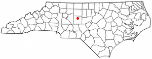 Category:North Carolina Dot Maps